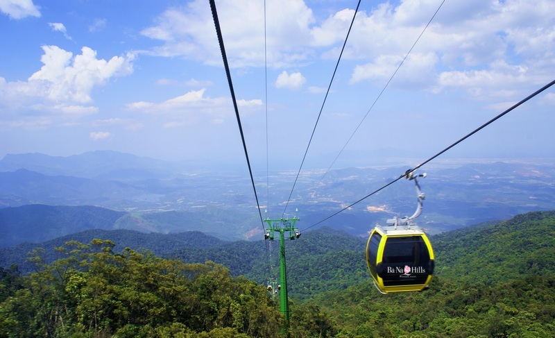 Ba Na Hills Cable Car - Da Nang, Vietnam. It holds 2 Guinness World Records.